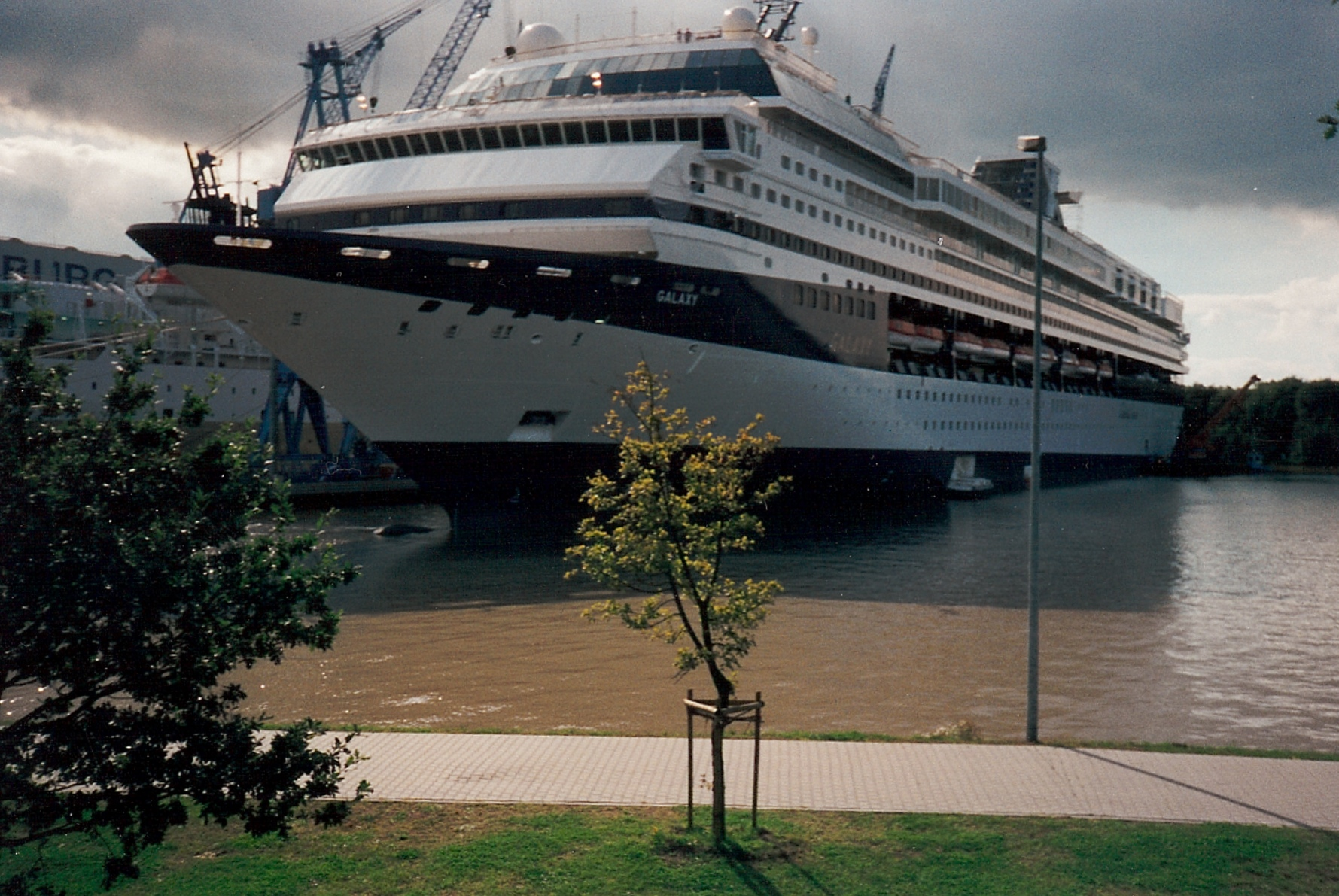 Cruise ship "Galaxy" at the equipment yard of the Meyer Werft shipyard in Papenburg Information about Galaxy may be found at IMO 9106297.A ship can change name and flag state through time, but the IMO number remains the same through the hull's entire lifetime. As a result, it can be useful to identify a ship by using the IMO number.